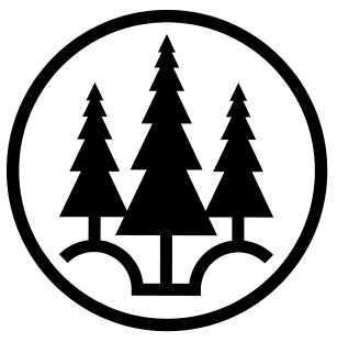 Kolm kuuske on Põhjala tehase logo olnud kummitööstuse algusaegadest